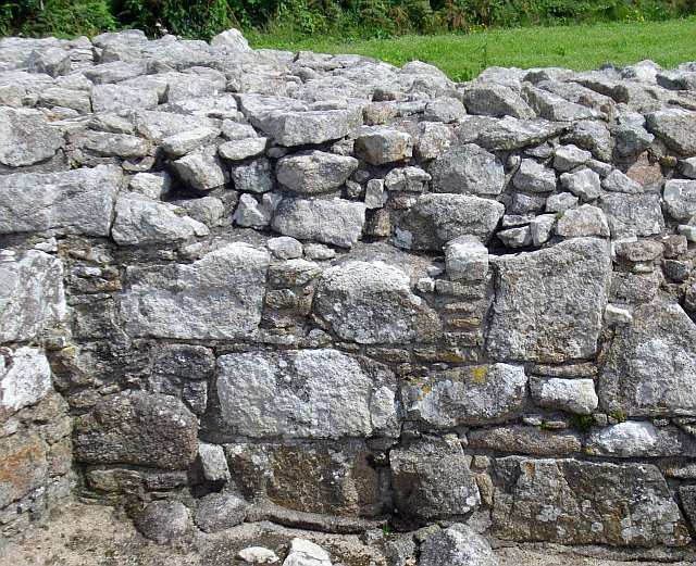 Wall detail, Harry's Walls, St. Mary's. Interesting to see the construction of the inner face of the fort wall. Large stones with a column of smaller stones between. I've noticed this in Aberdeen - the granite city.936169